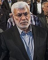 Abu Mahdi al-Muhandis in the first anniversary of Sha'ban Nasiri